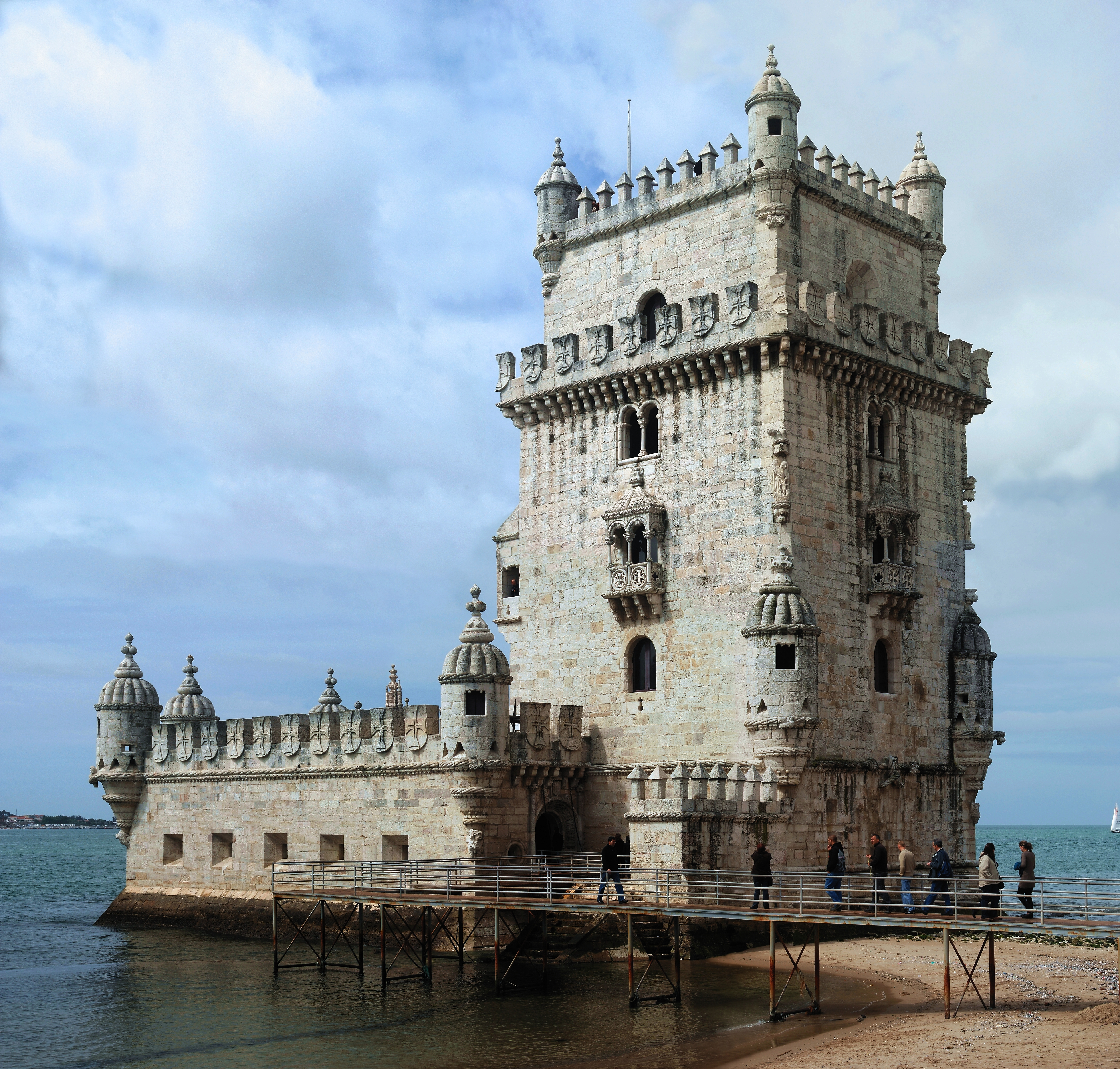 The Tower of Belém, Lisbon, Portugal. View from Northeast.